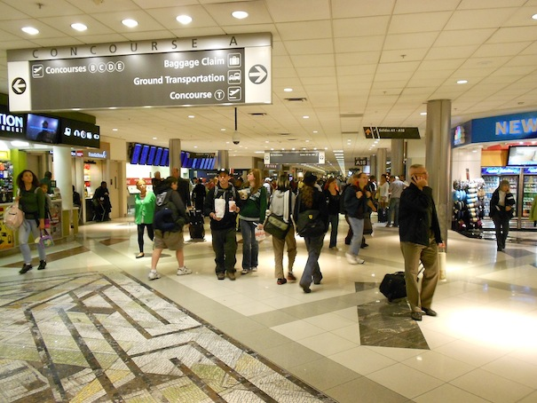 ATL Concourse A